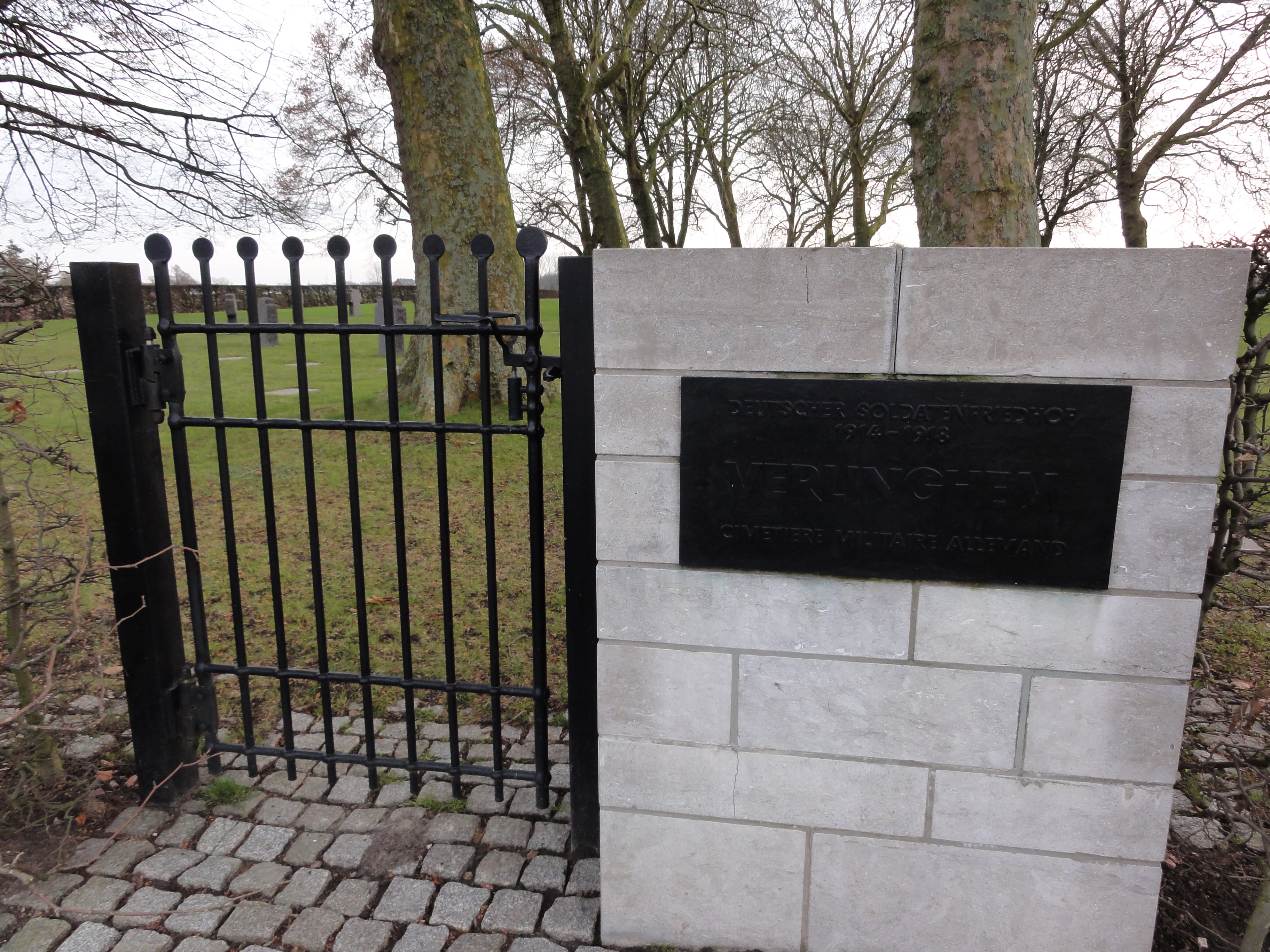 Deutscher Soldatenfriedhof Verlinghem in Verlinghem.